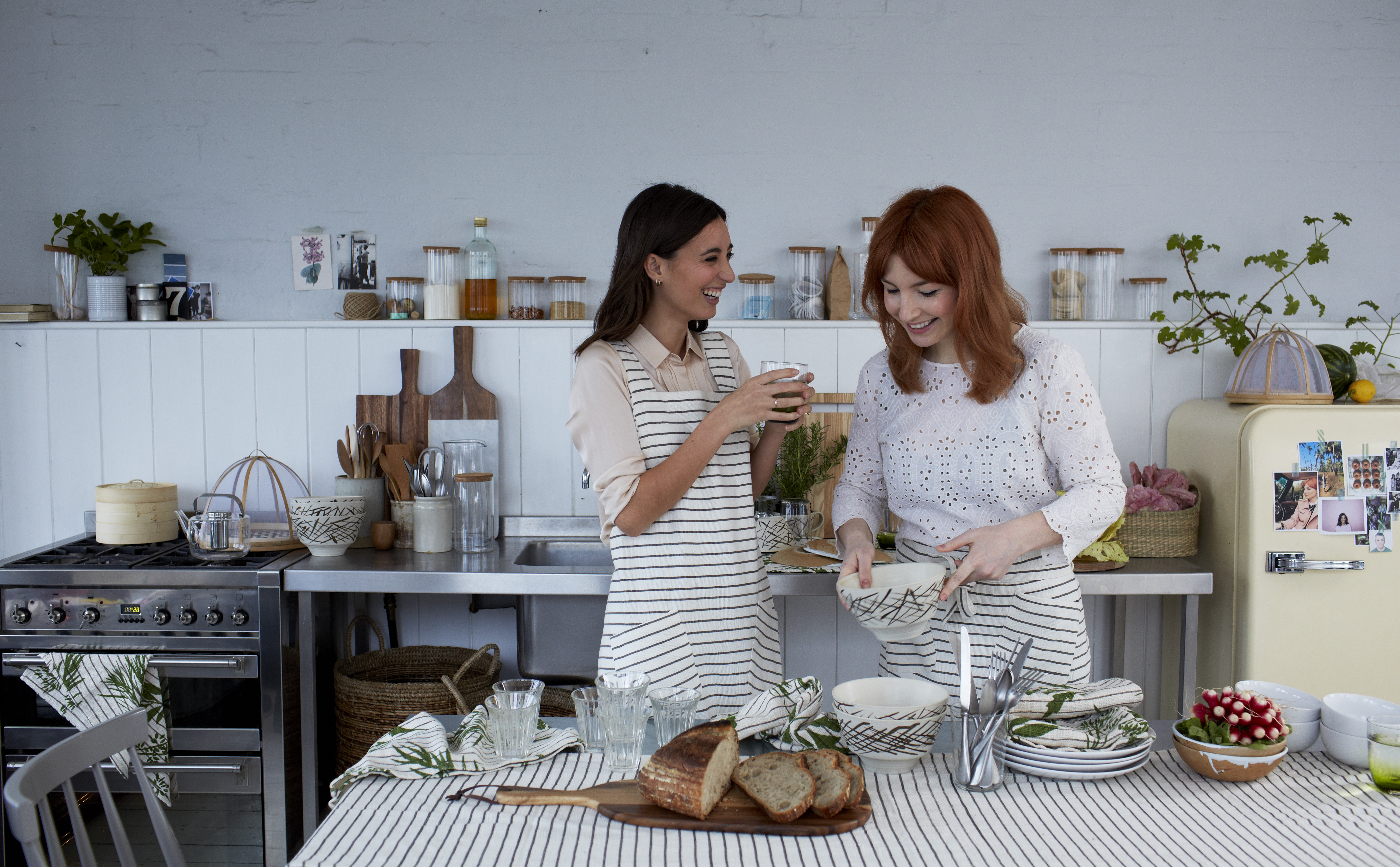 Jackson & Levine for Habitat